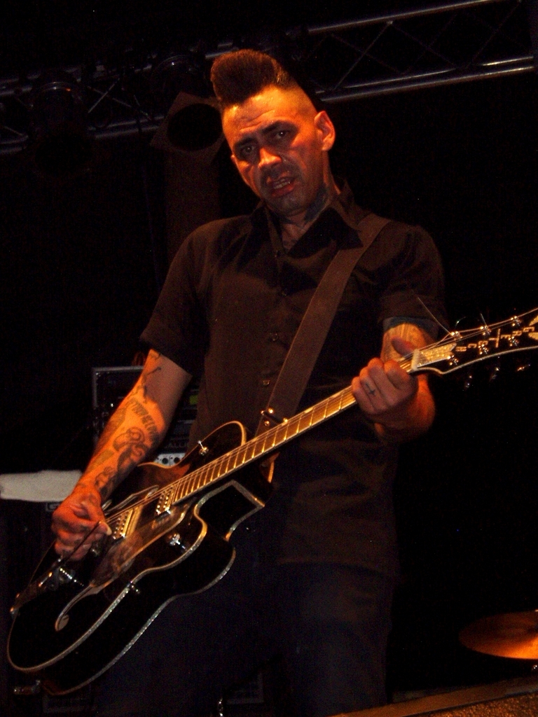 HorrorPops, taken in Mishawaka, Colorado